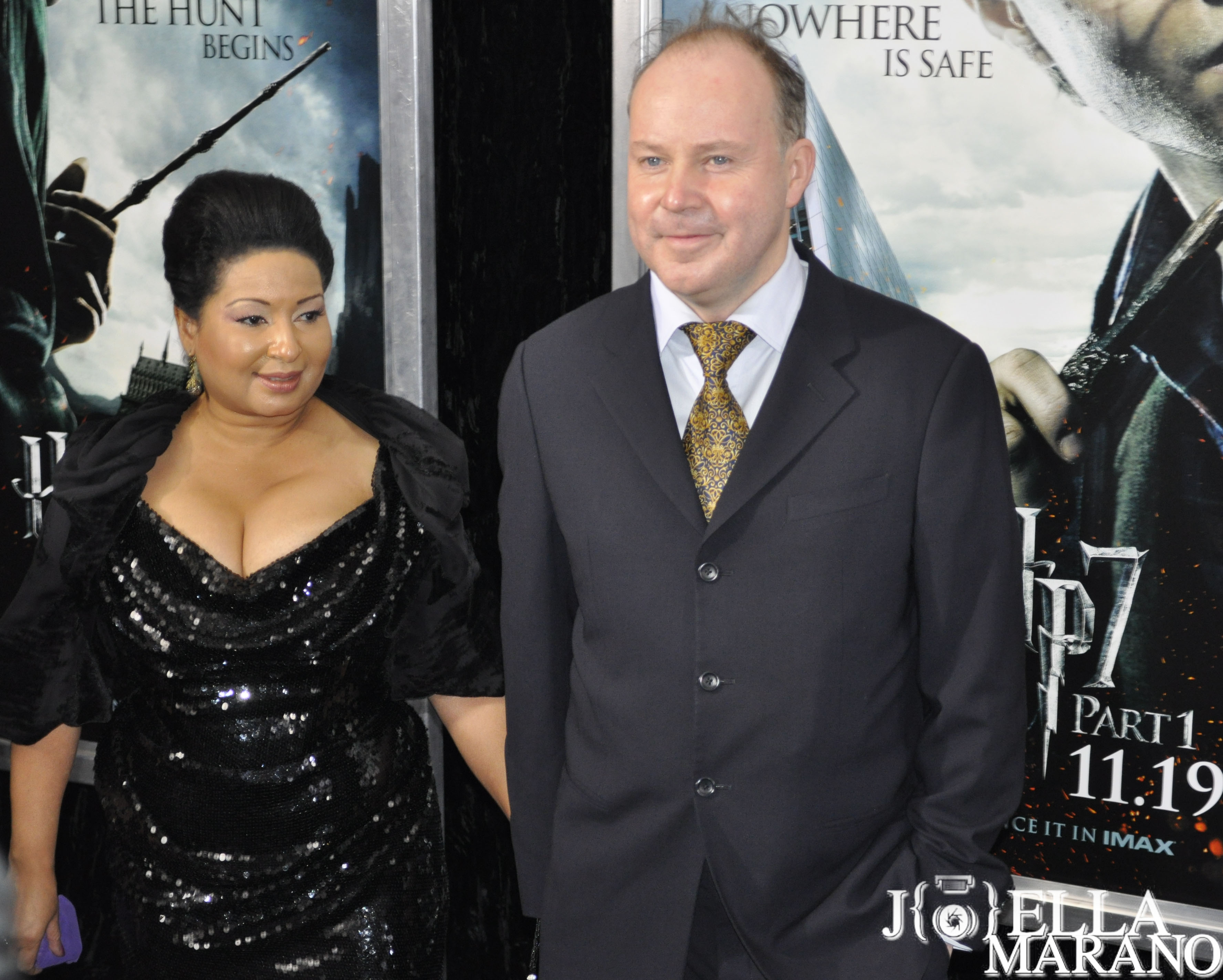 David Yates with his wife, Yvonne Walcott. Harry Potter and The Deathly Hallows Premiere Alice Tully Center - NYC November 15th 2010